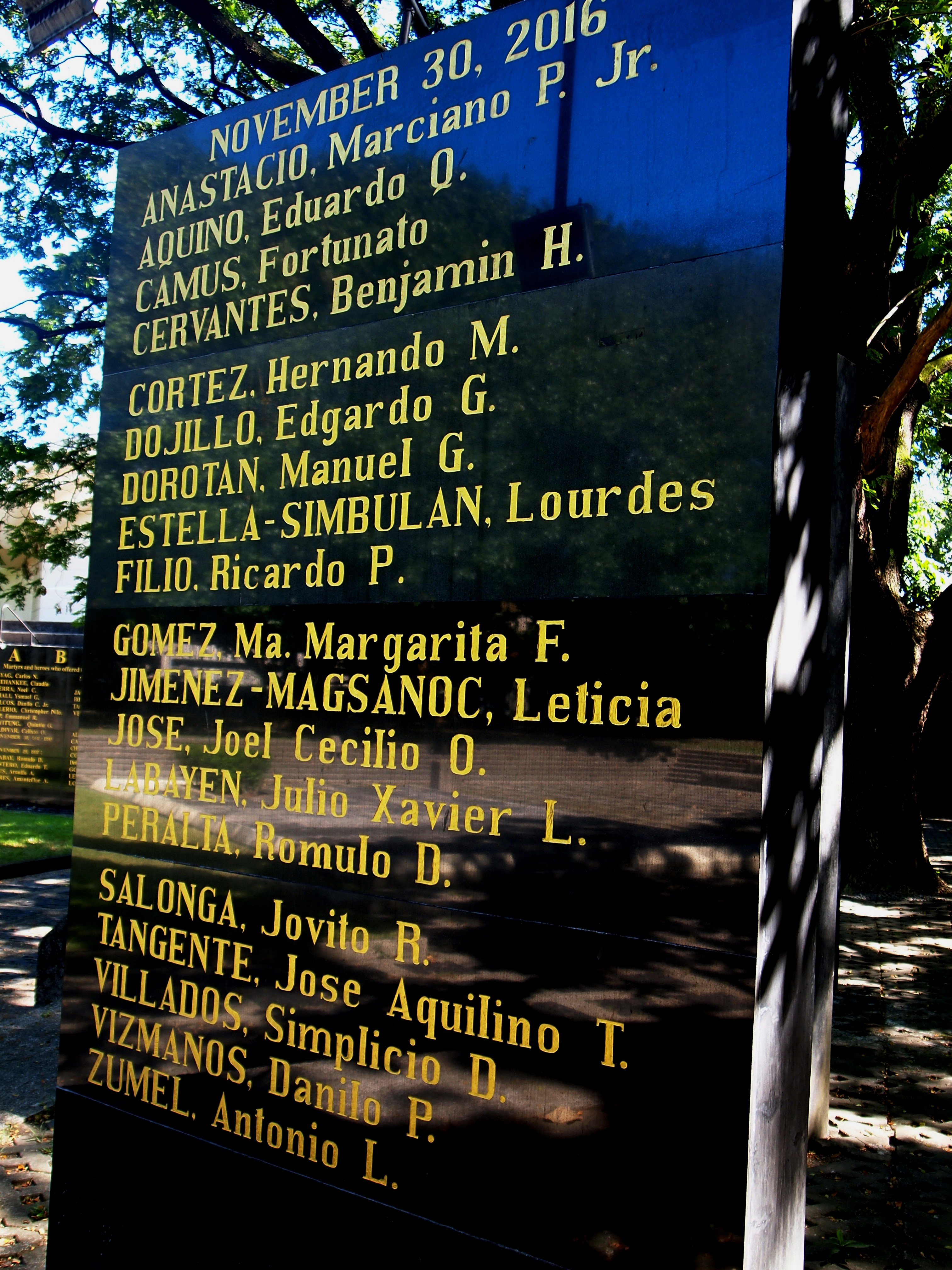 Detail of the Wall of Remembrance at the Bantayog ng mga Bayani, photographed at noon on 15 November 2018, showing names from the 2016 batch of Bantayog honorees